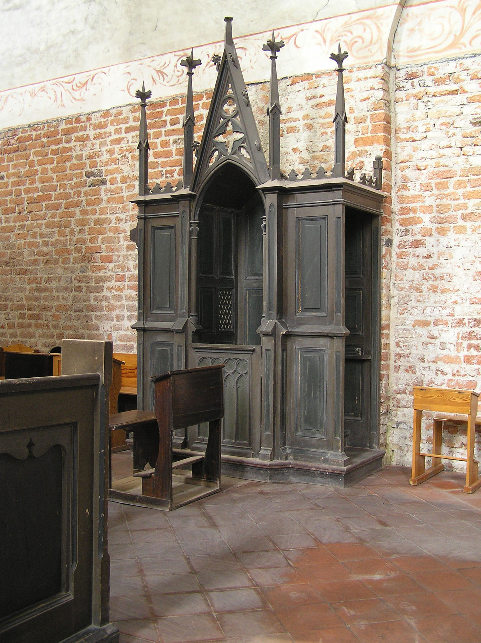 Chełmno, church of SS. James and Nicholas, until 1806 Franciscans', confessional, ca. 1870